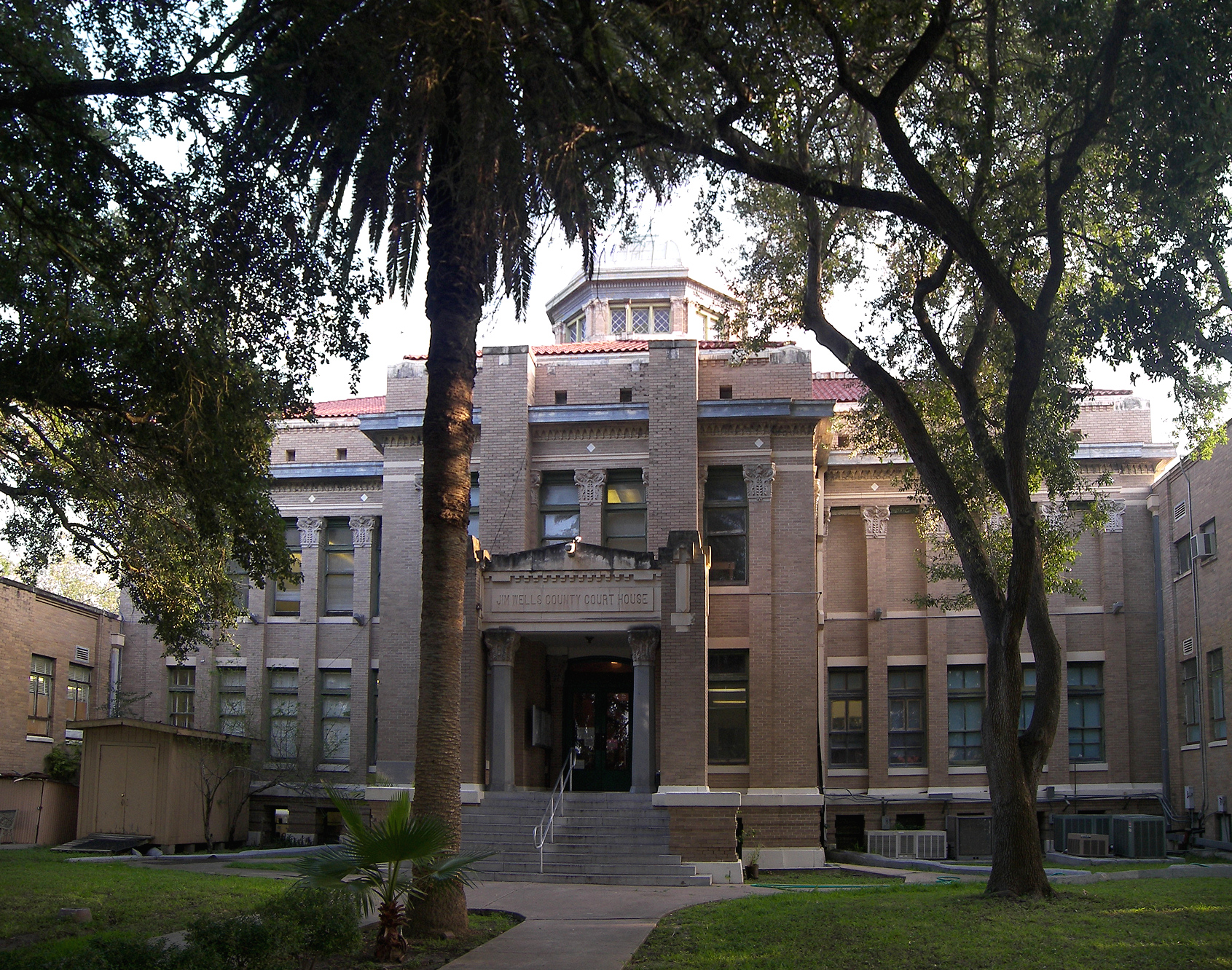 The Jim Wells County Courthouse located in Alice, Texas, United States. The cornerstone was laid on July 25, 1912. The architecture is Mediterranean Revival with Prairie influences.